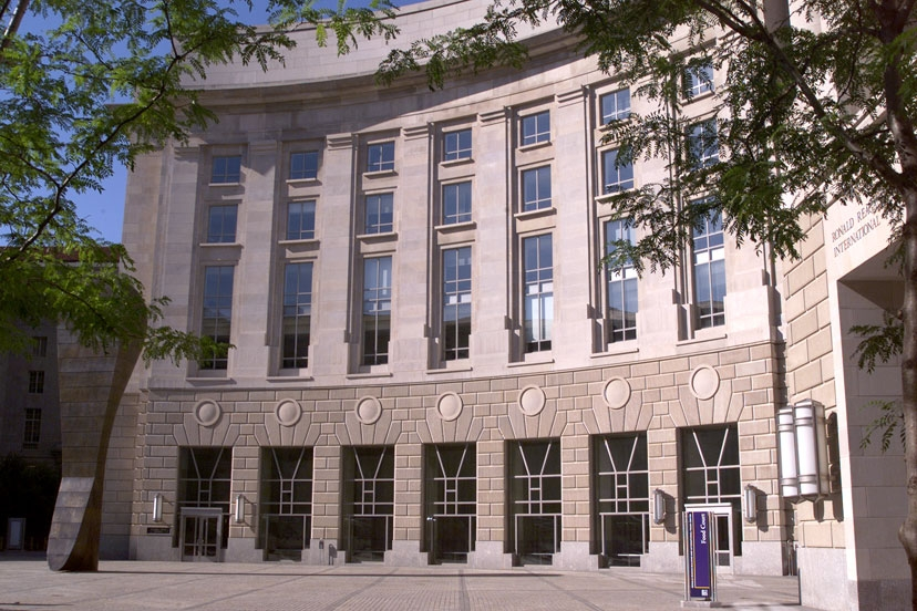 View of the Woodrow Wilson International Center for Scholars, in the Ronald Reagan Building, Washington, D.C.